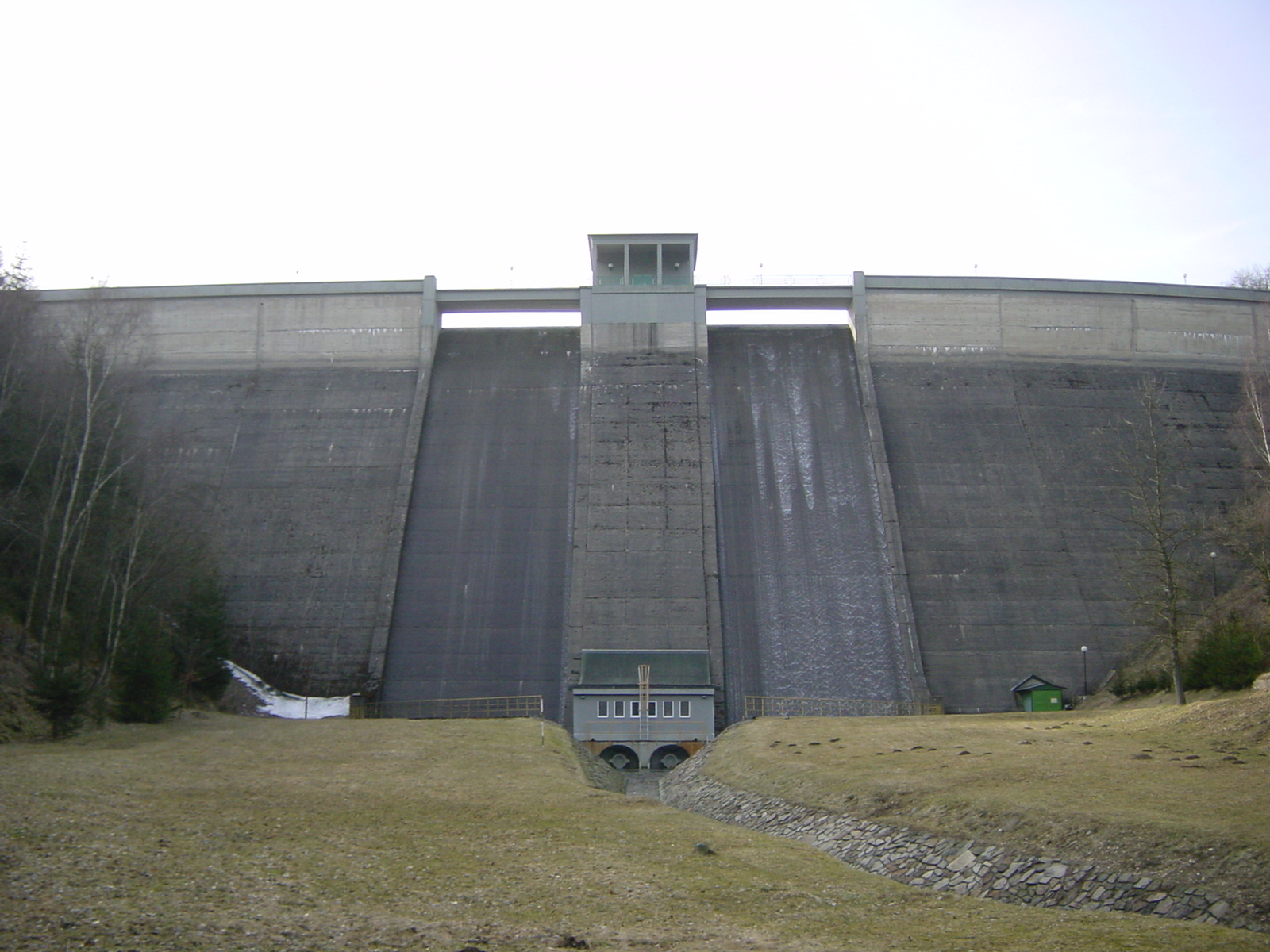 Krimov dam in Czechia